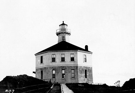 Public Domain statement here; The Eldred Rock Light is an historic octagonal lighthouse adjacent to Lynn Canal in Alaska.